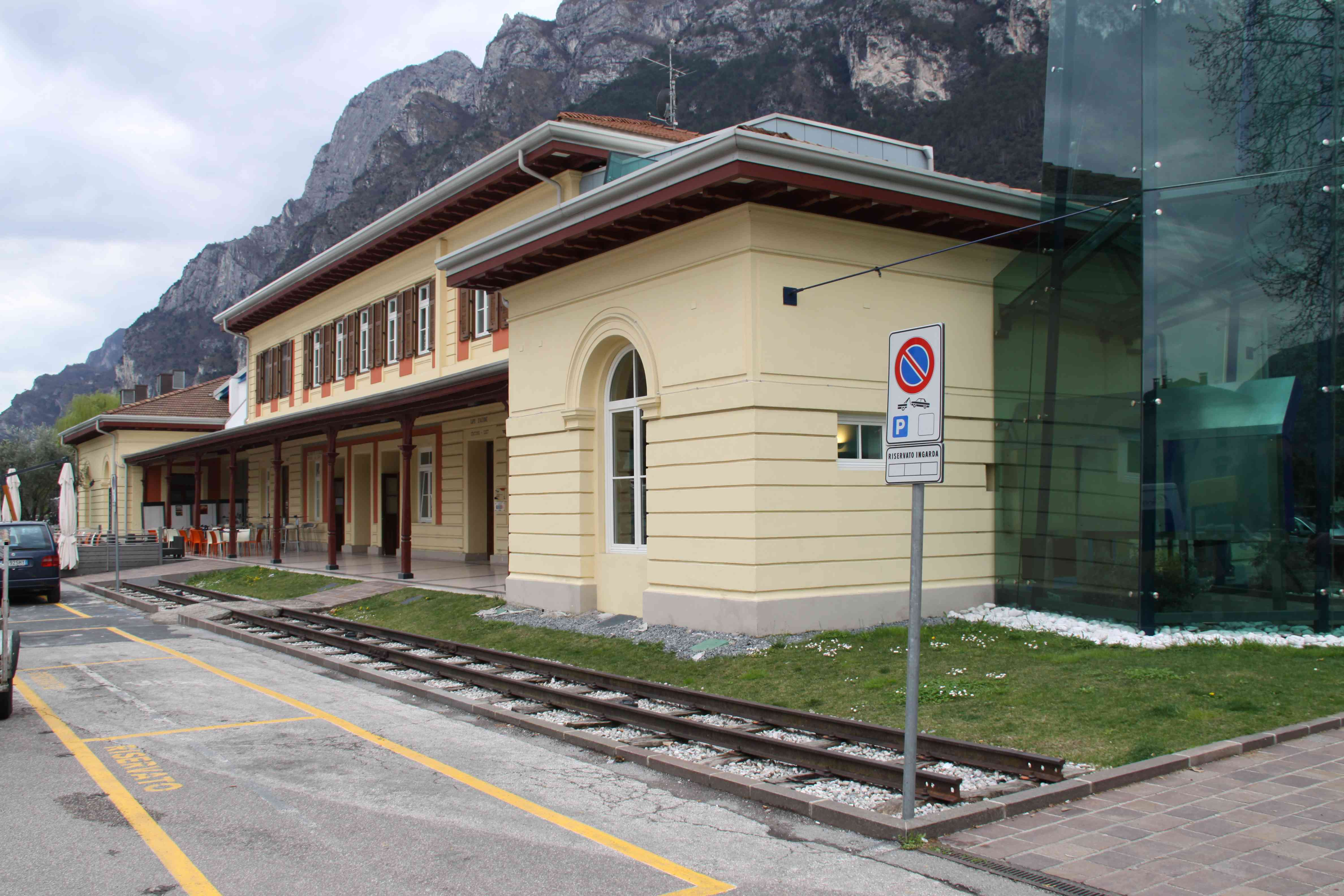 Bahnhof Riva 2010